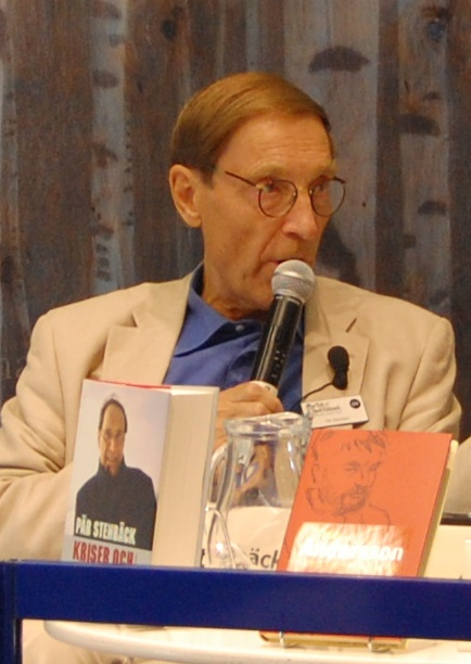 Image from Gothenburg Book Fair 2009